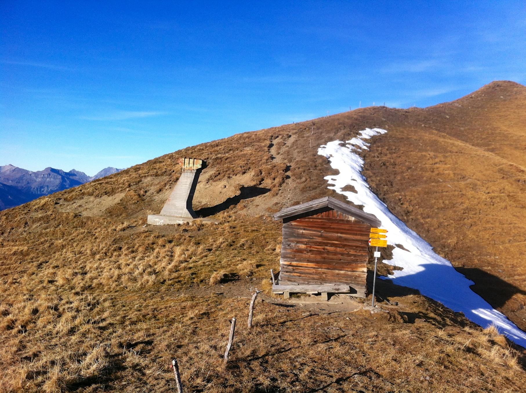 ruins of old ski-lift "Strassberger Fürggli" in Fondei/Arosa, Switzerland